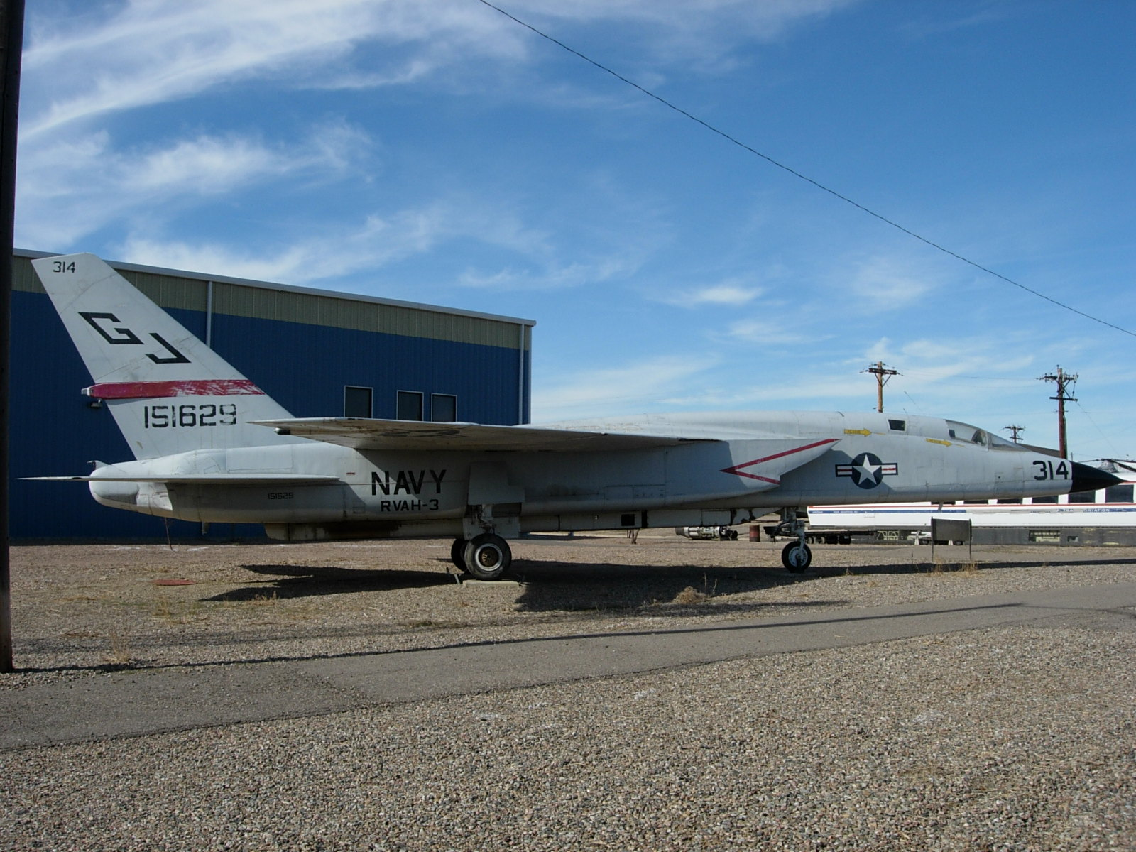 A fromer U.S. Navy North American RA-5C Vigilante (BuNo 151629) on display at the Pueblo Weisbrod Aircraft Museum in Pueblo, Colorado (USA) on 9 November 2007. It wears the markings of the fleet replacement squadron RVAH-3 Sea Dragons, and was retired to the MASDC as 4A0016 on 1 September 1971.